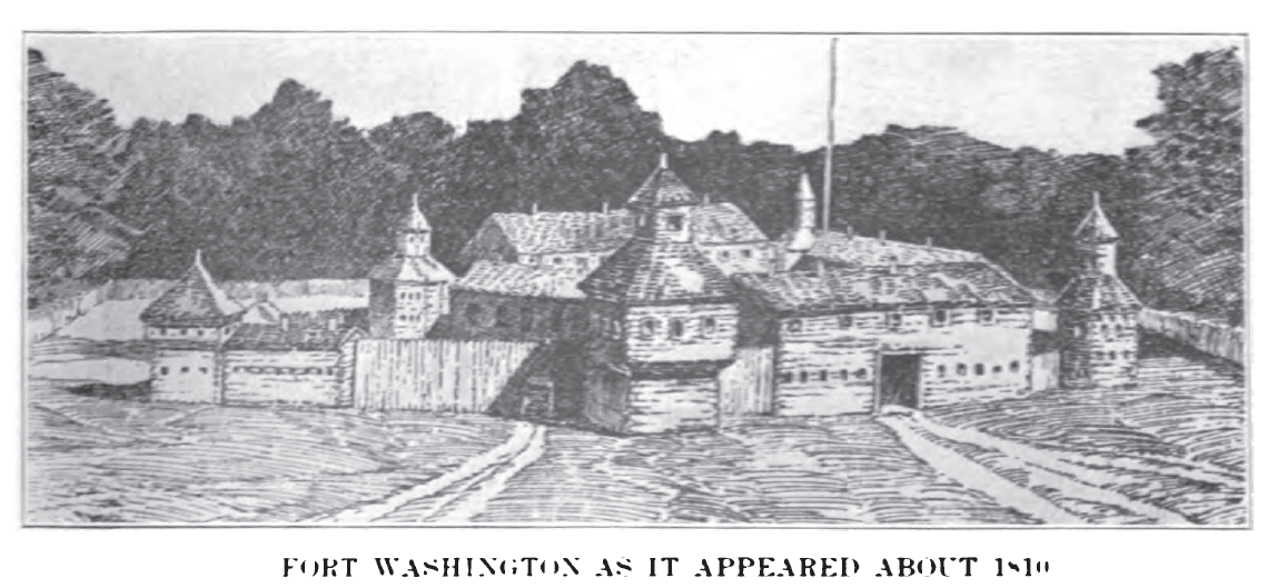 A fort from the Northwest Indian War in Cincinnati